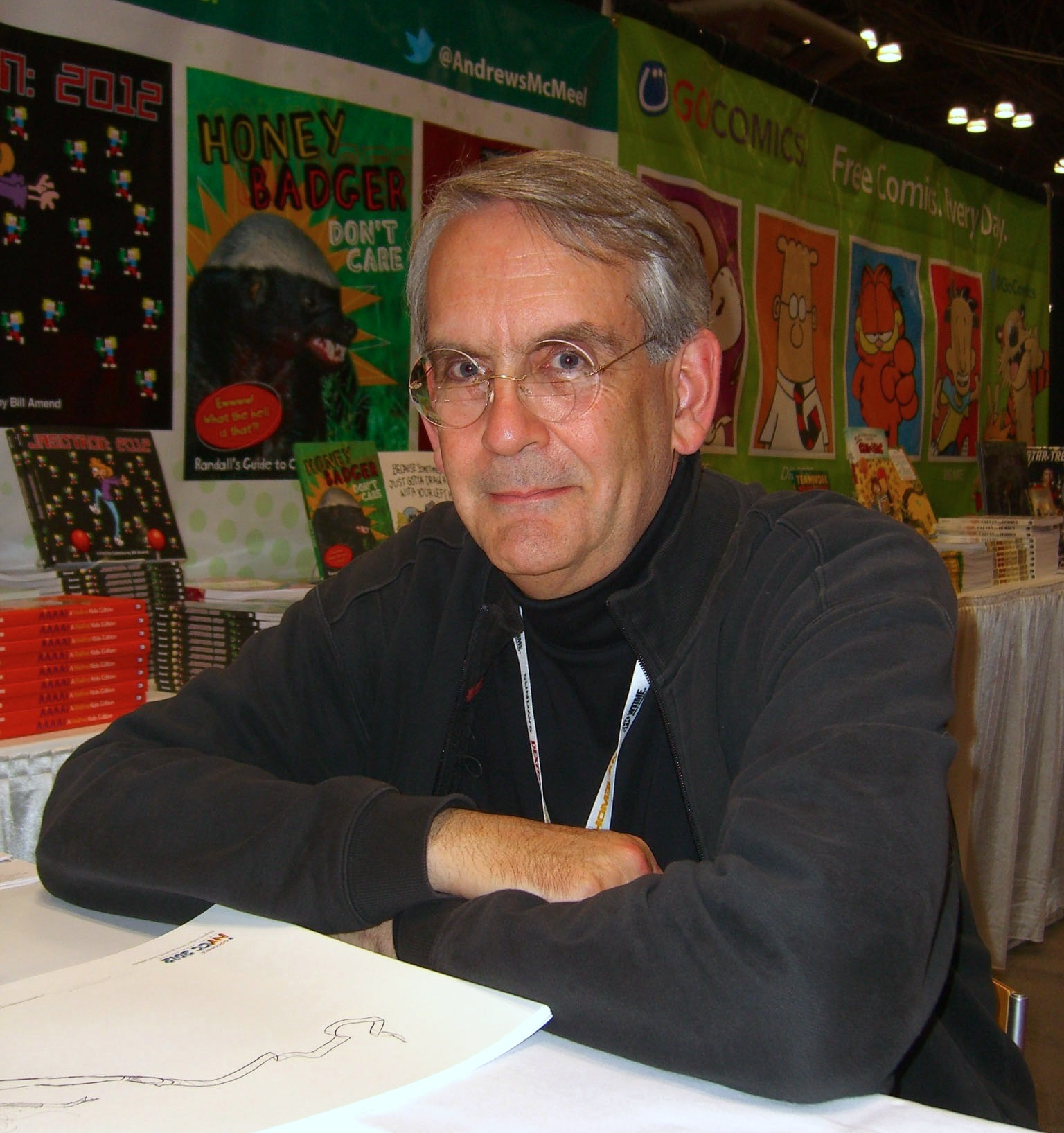 Comics creator Brooke McEldowney on Day 2 of the 2012 New York Comic Con, Friday October 12, 2012 at the Jacob K. Javits Convention Center in Manhattan. This photo was created by Luigi Novi. It is not in the public domain, and use of this file outside of the licensing terms is a copyright violation.